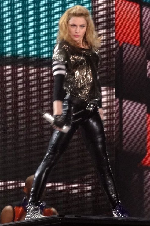 Madonna live at the o2 World, Berlin on 30 June 2012 during her MDNA Tour.